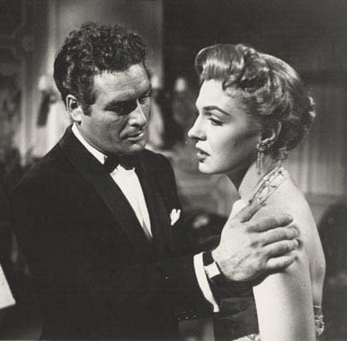 Jorge Mistral & Zully Moreno in Amor prohibido - publicity still (cropped)